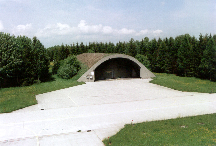 German Shelter Type (HAS) Tornado Version